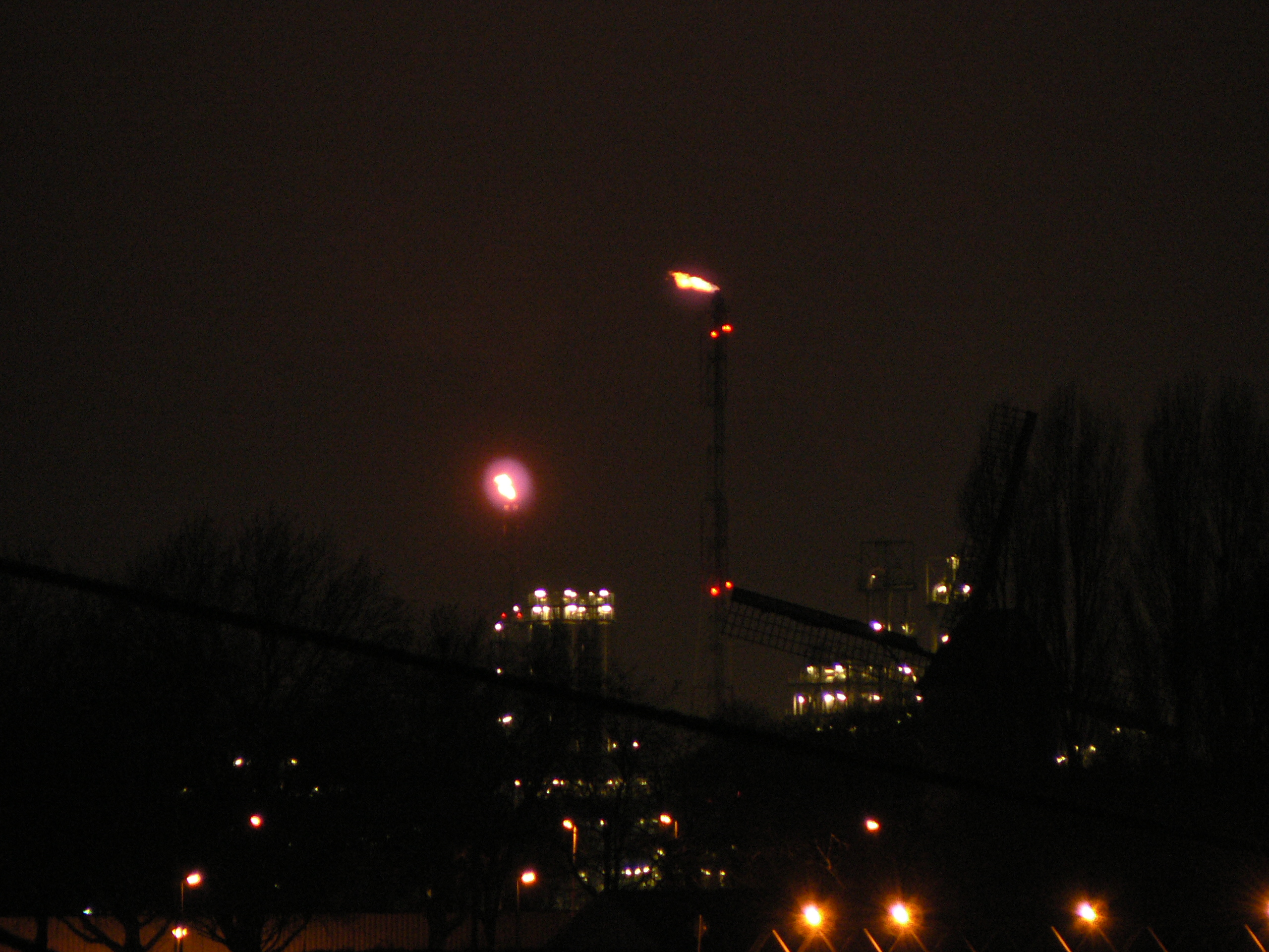 gas fires from oil refineries in port, seen from Rijnkaai, Antwerpen, Belgium